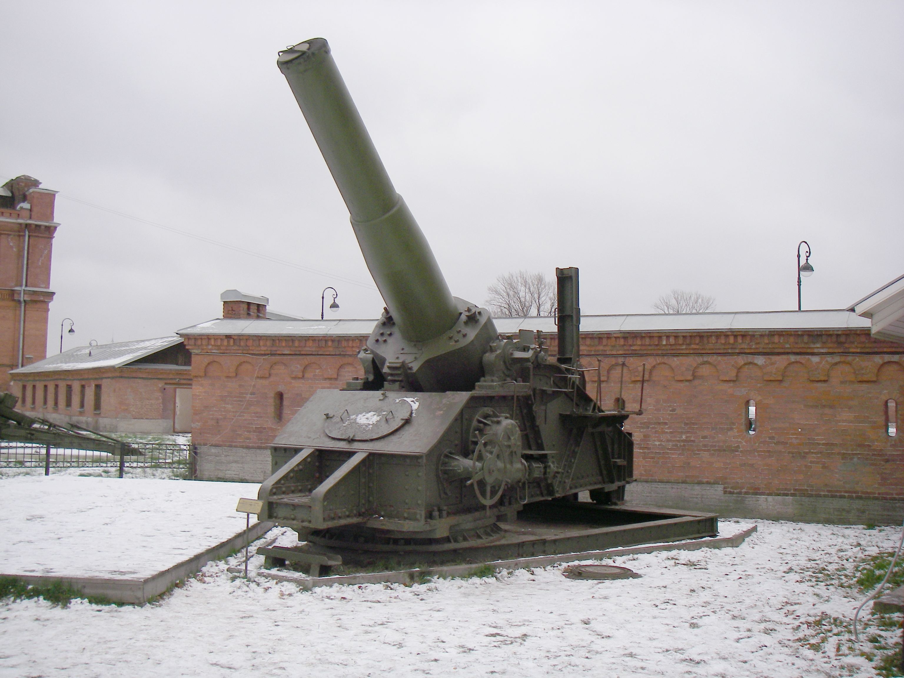 305-mm howitzer M1915 in Saint Petersburg Artillery museum